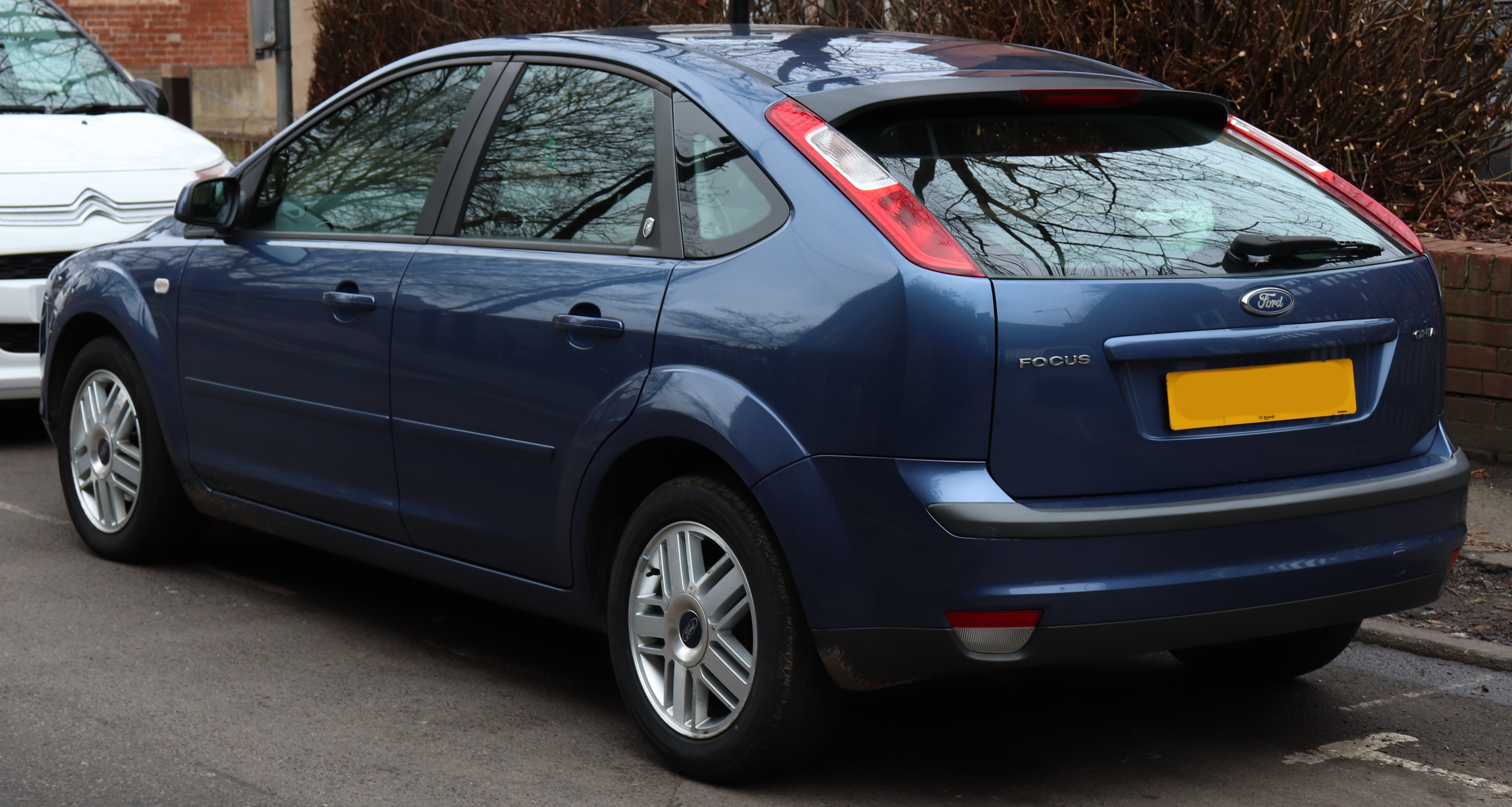 2005 Ford Focus Ghia 1.6 Rear Taken in Leamington Spa